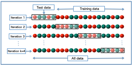 This is the English-language version of by User:Joan.domenech91 originally released under CC BY-SA 3.0